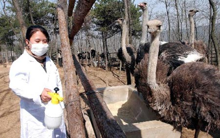 Empolyee is breeding